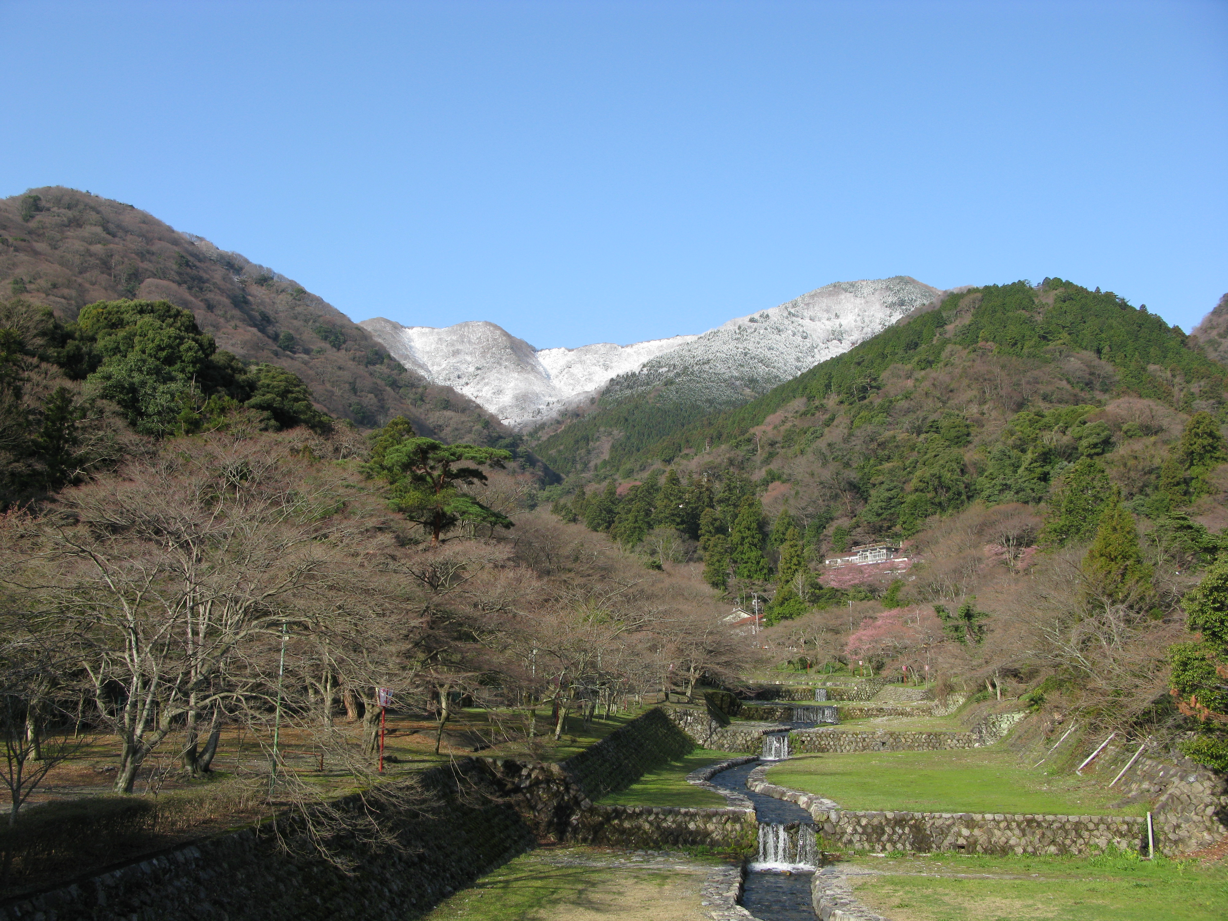 Mount Yoro viewed from Fudo Bridge, Yoro Park in Yoro Town, Gifu Prefecture, Japan